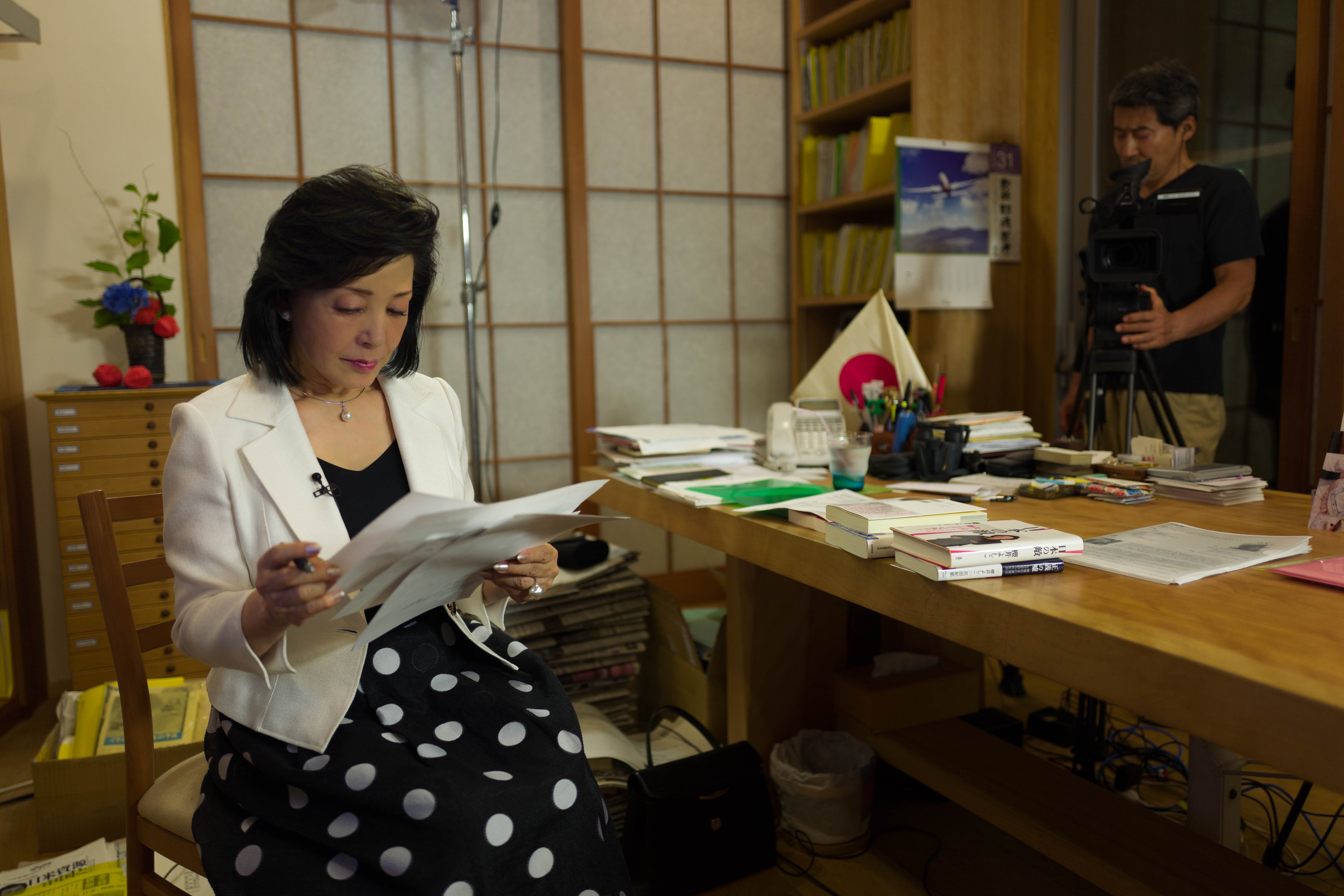 Yoshiko Sakurai, President of the Japan Institute for National Fundamentals, prepared for the Sakura LIVE on July 10, 2015.